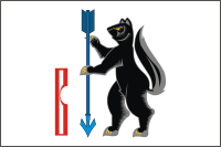 Verkhoturie (Sverdlovsk oblast), flag